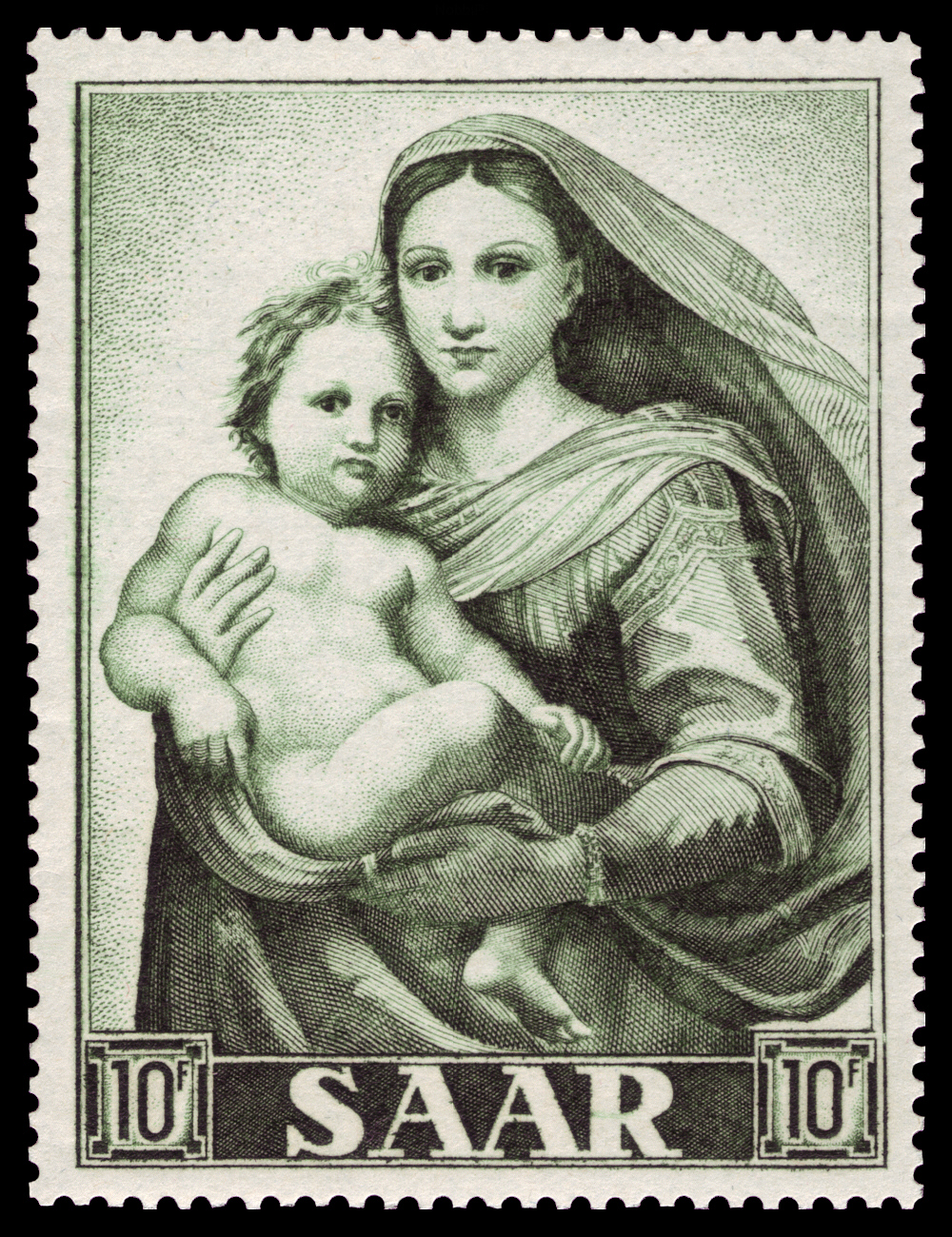 Year of Mary